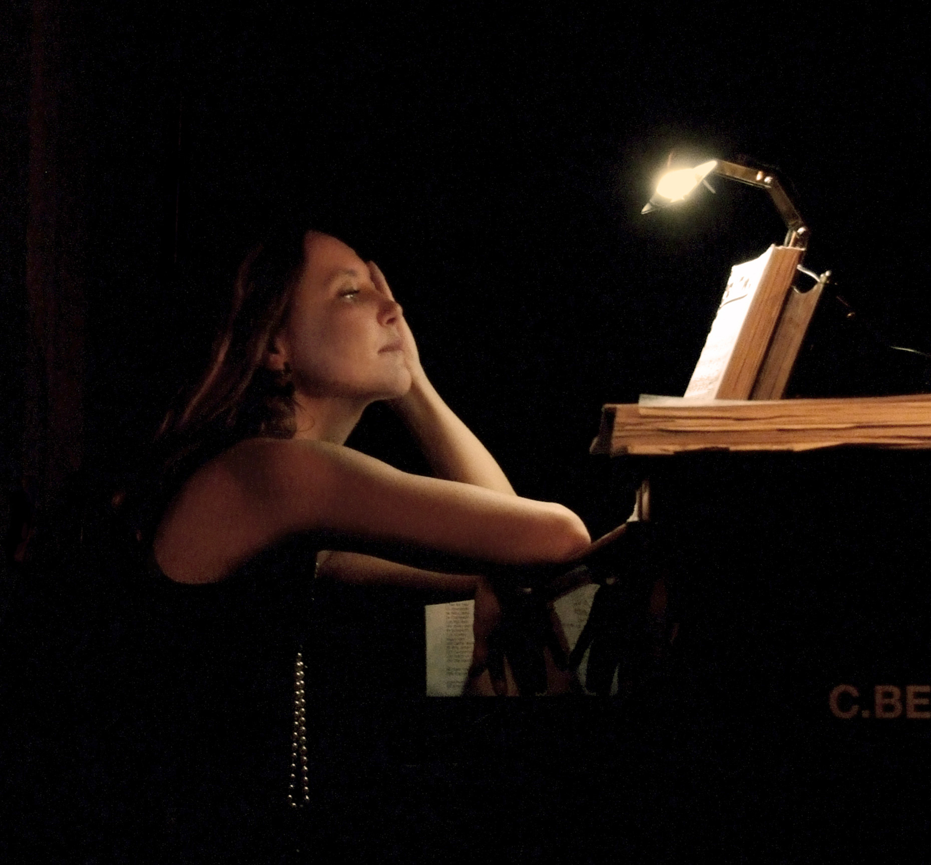 Zsuzsa Balint 2009 Berlin